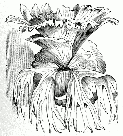 Figure from book